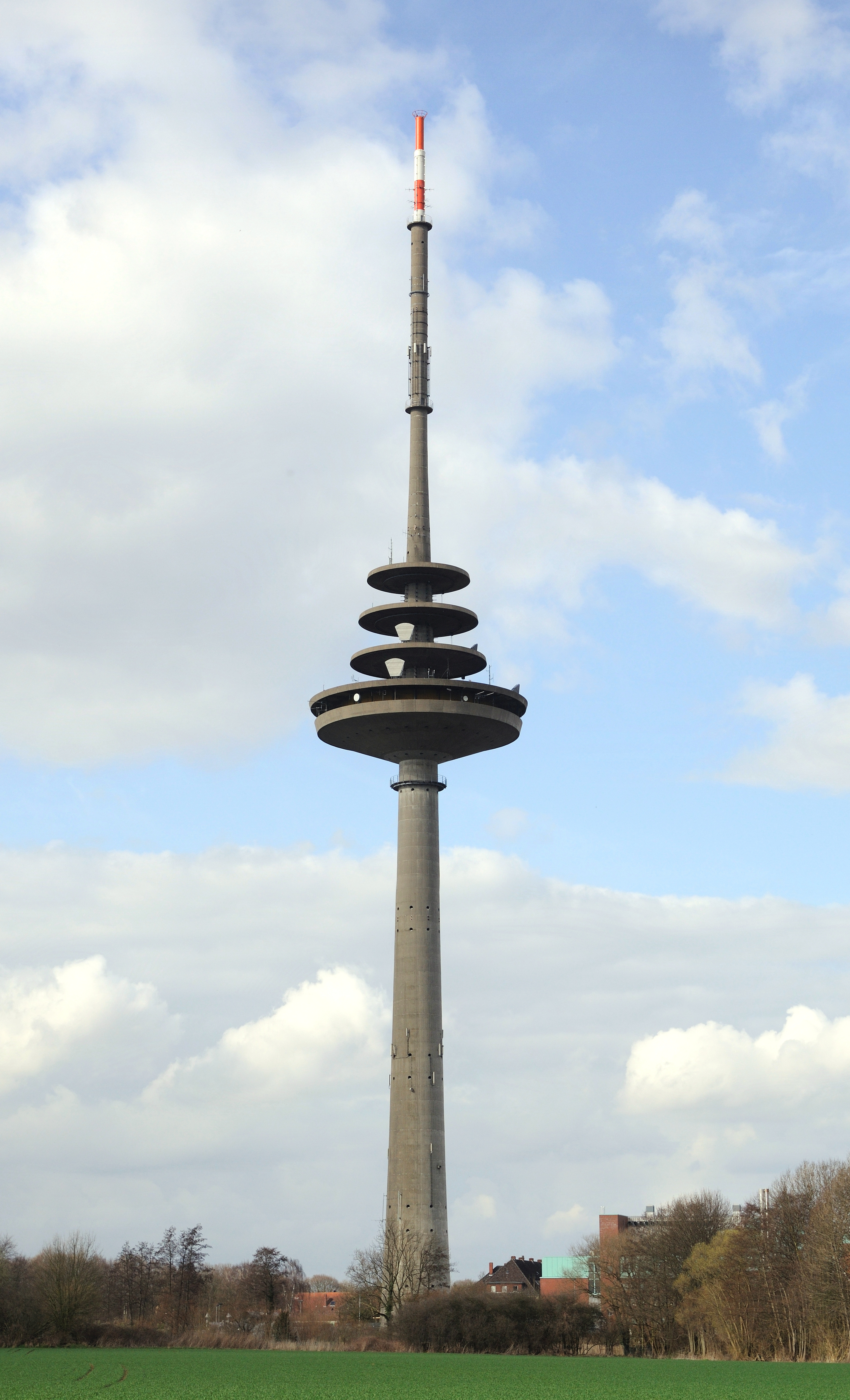 Television Tower Munster, Germany.